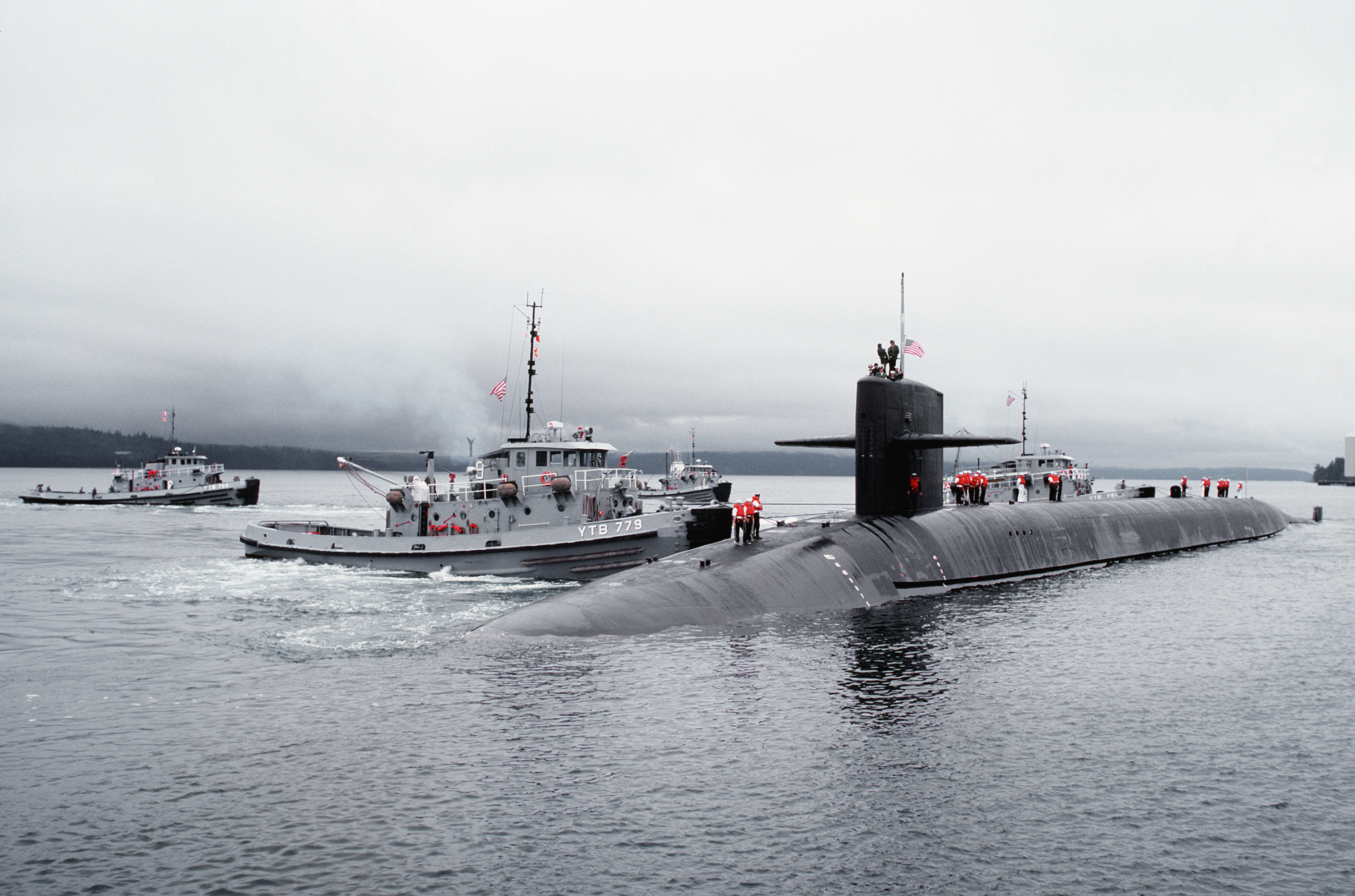 Ottumwa (YTB-761 and Manhattan (YTB-779) assist in the docking of the nuclear-powered strategic missile submarine Ohio (SSBN-726) at Delta Pier, Naval Submarine Base Bangor, WA. DVIC photo # DN-ST-83-00540 by PH1 Harold Gerwien, USN.